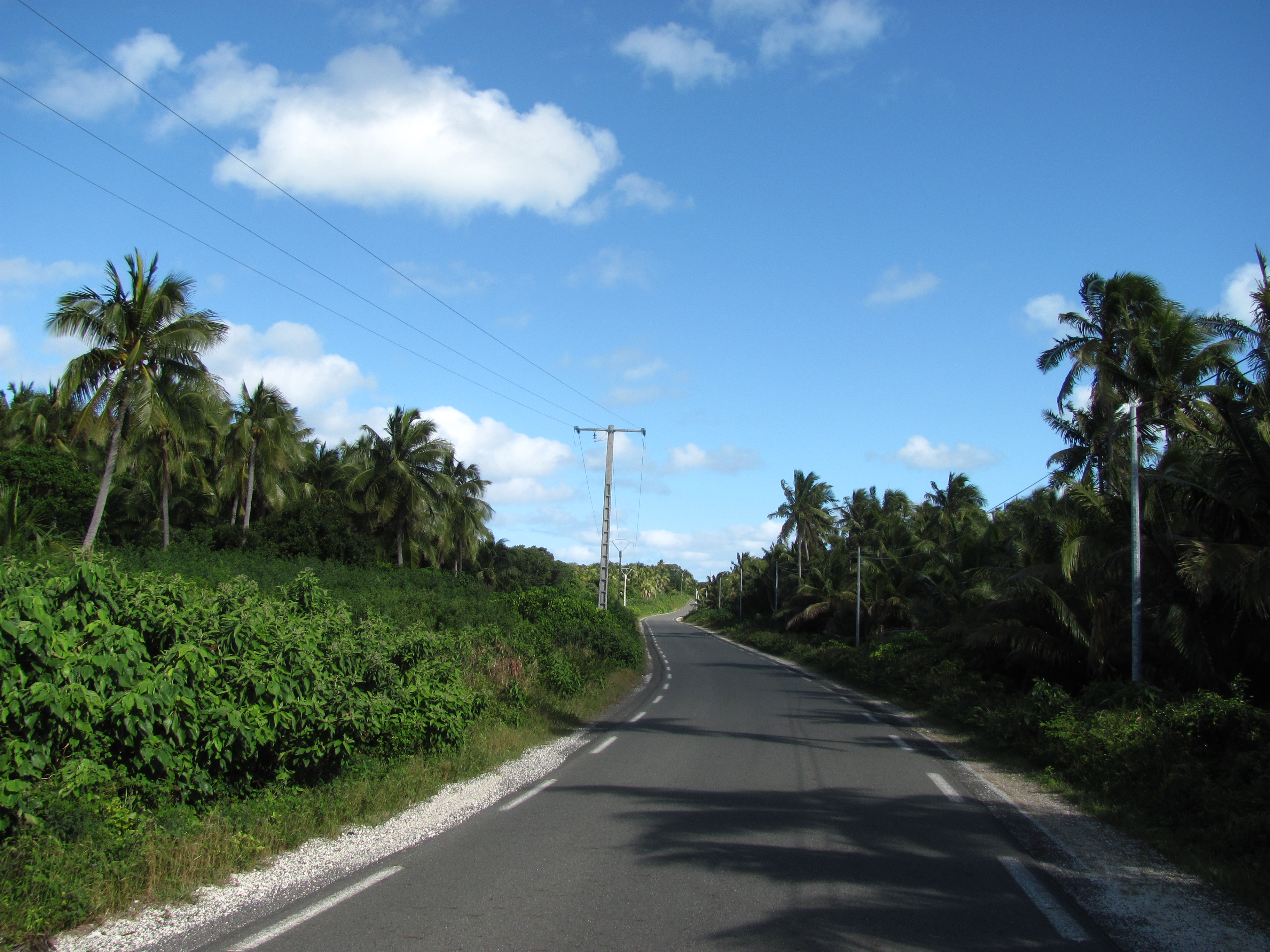 Main Road, Wadrilla, Ouvéa, New Caledonia